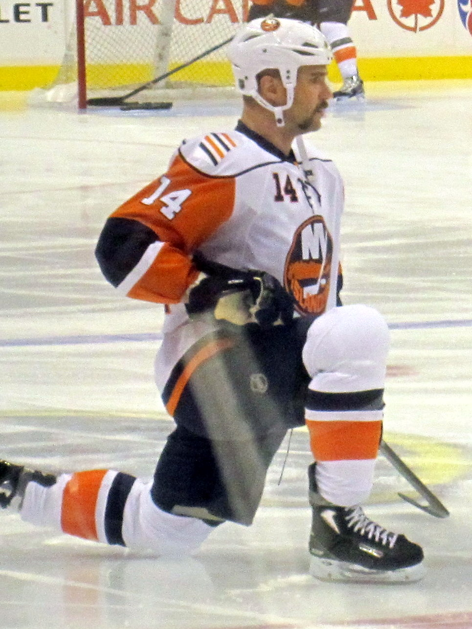 New York Islanders forward Trevor Gillies during a game against the Vancouver Canucks on March 17, 2010.